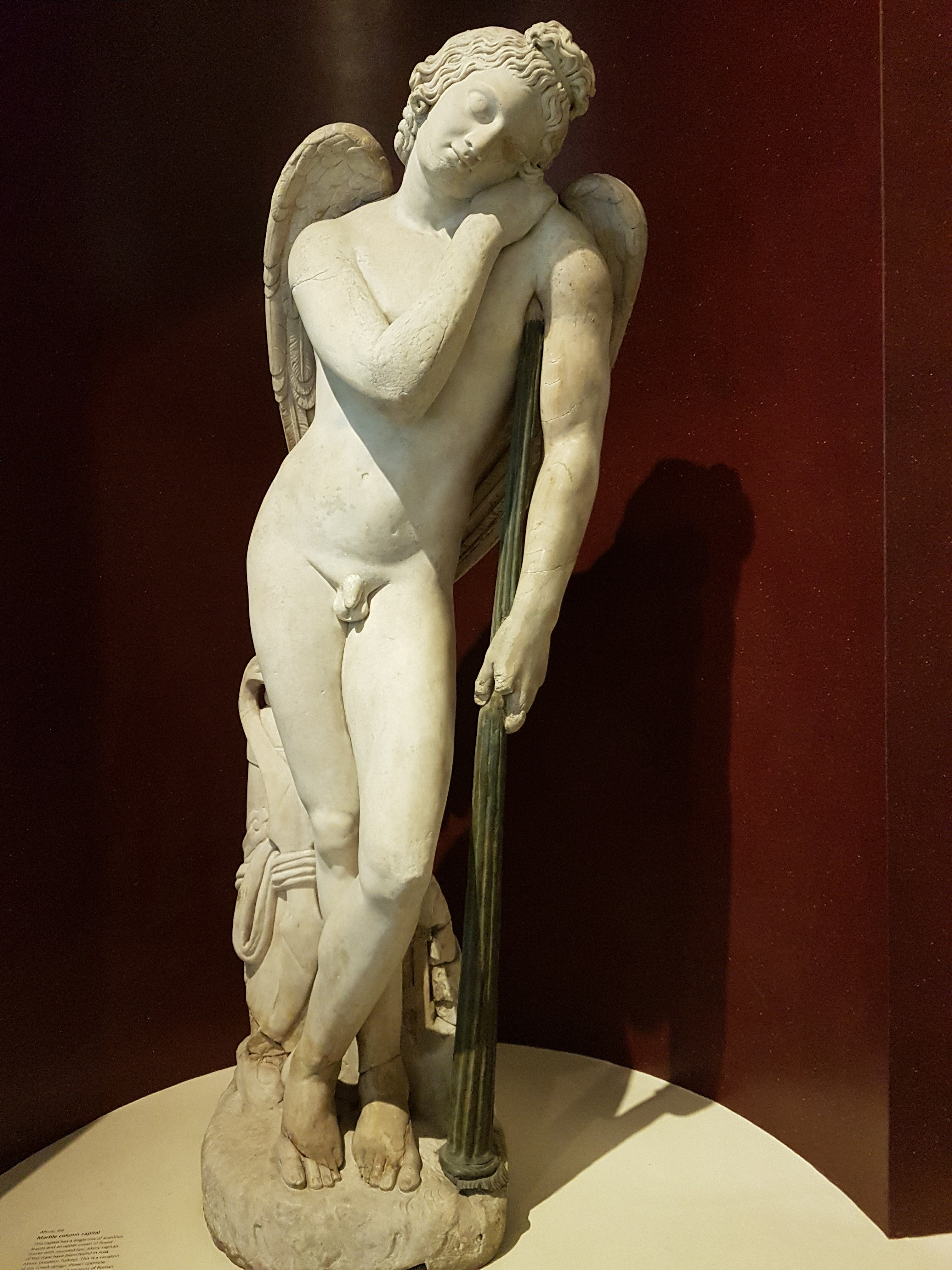 Marble statue of Eros, Roman type, torch turned down.